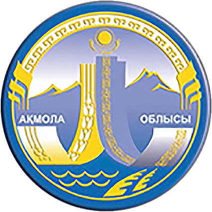 Coat of Arms of Aqmola Province